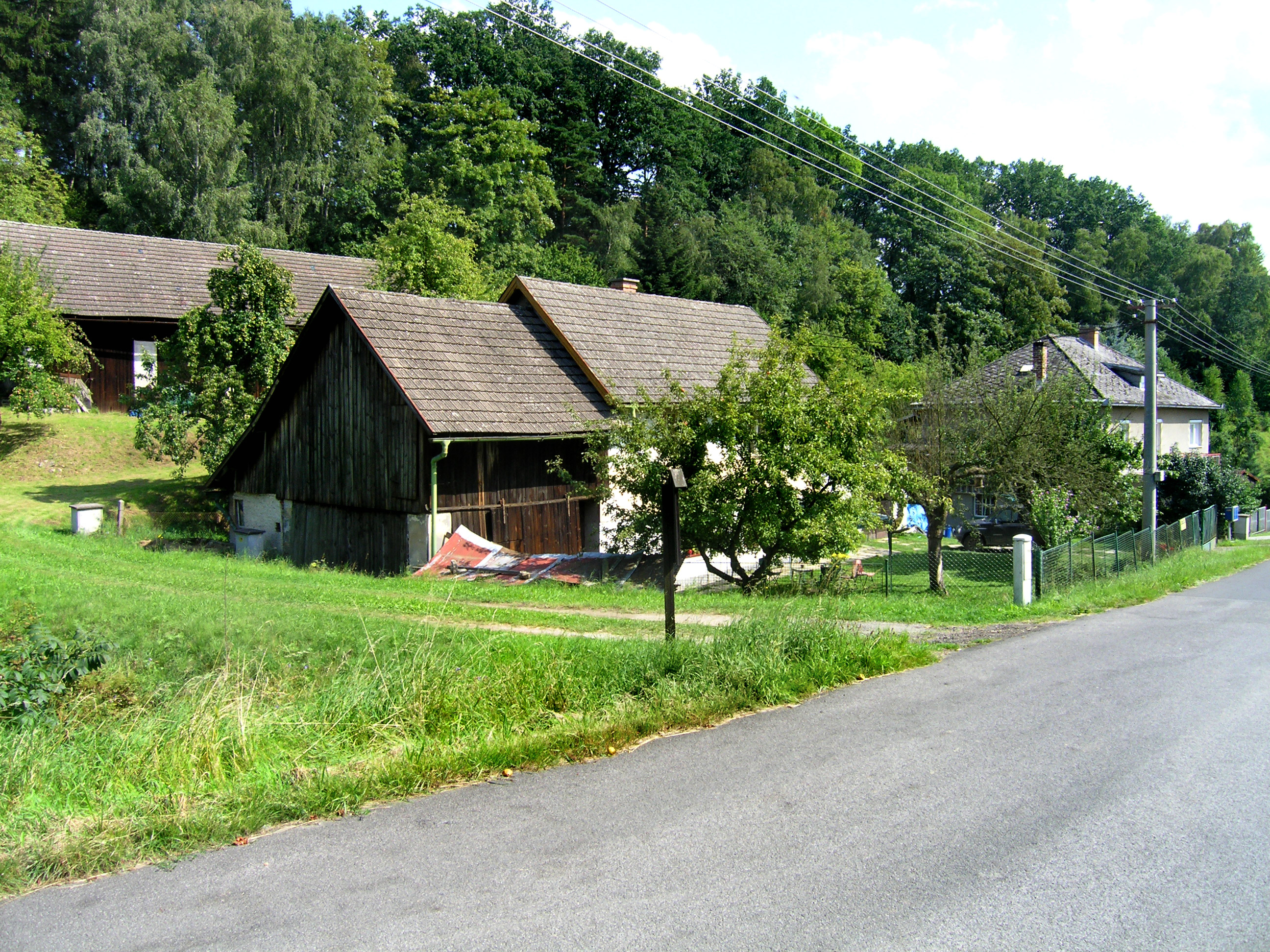 Tisovka settlement in Mírová pod Kozákovem, Czech Republic